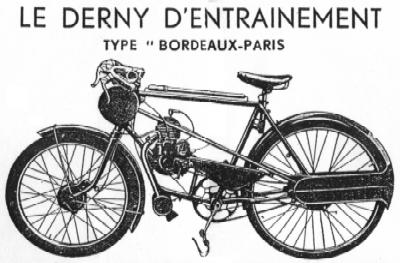 Derny motor-pacing bike publicity material